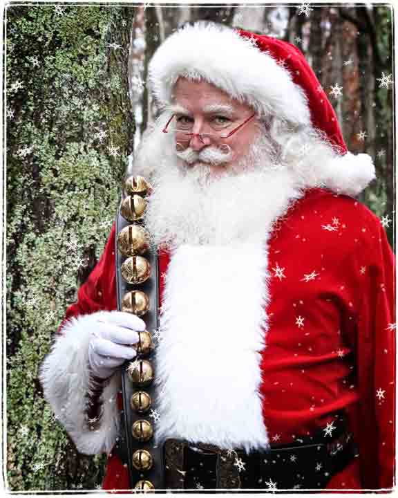 Santa Claus portrayed by Jonathan Meath.